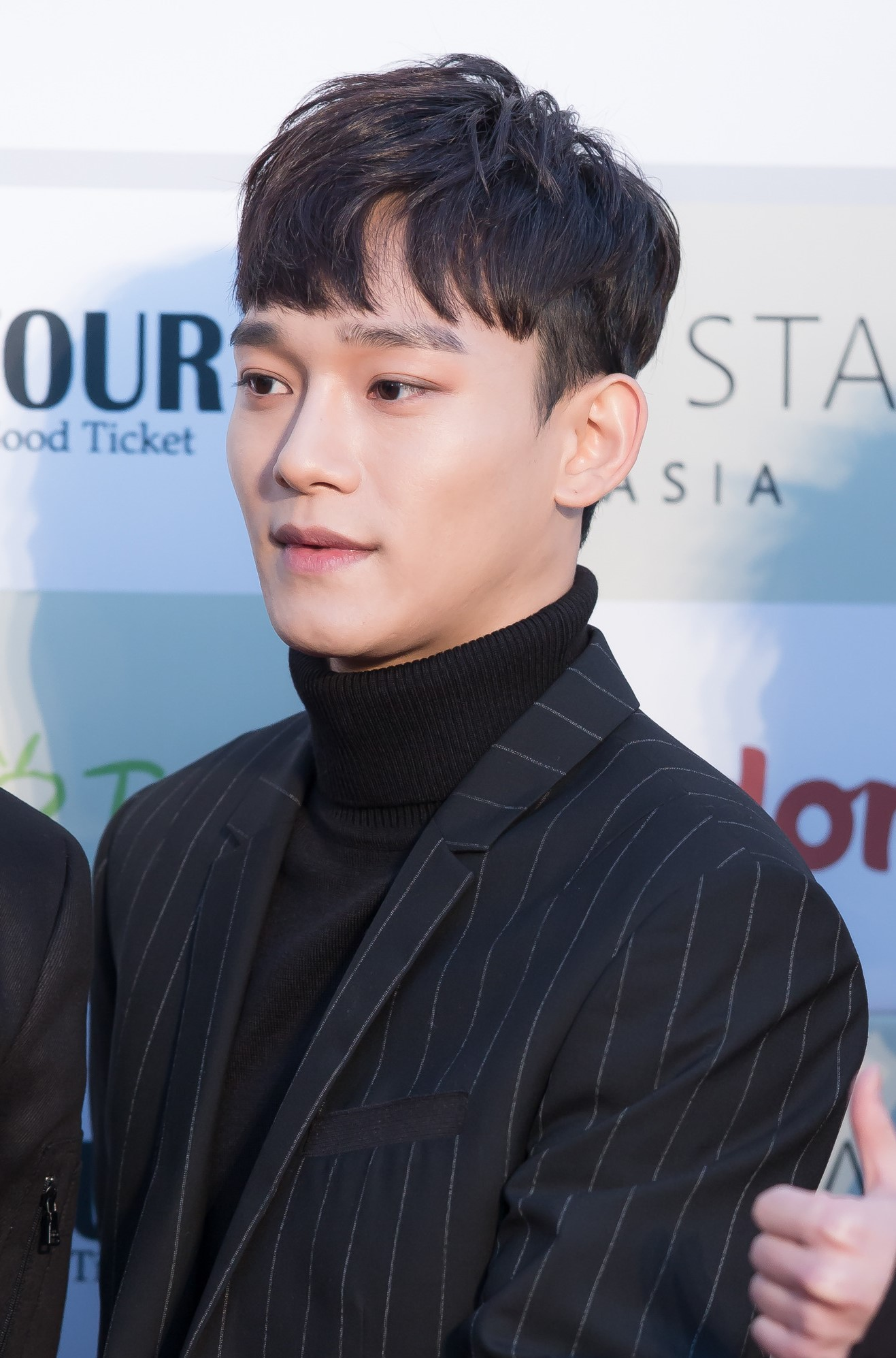 Chen at Gaon Chart K-pop Awards red carpet, on February 17, 2016